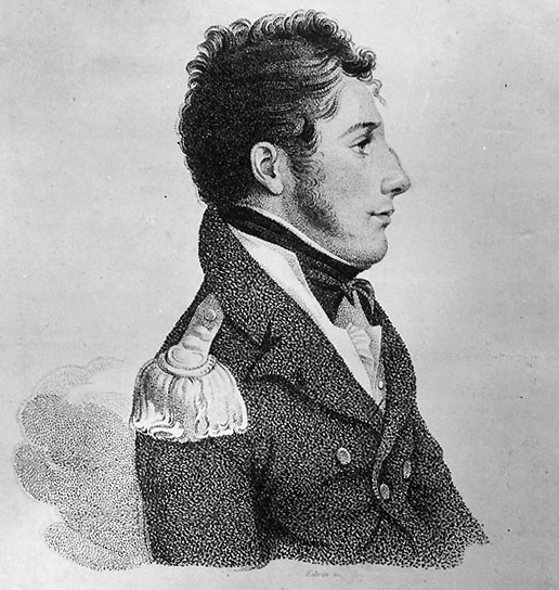 Engraving of William Henry Allen, United States Naval Officer. This version is cropped and straightened from the earlier scan.